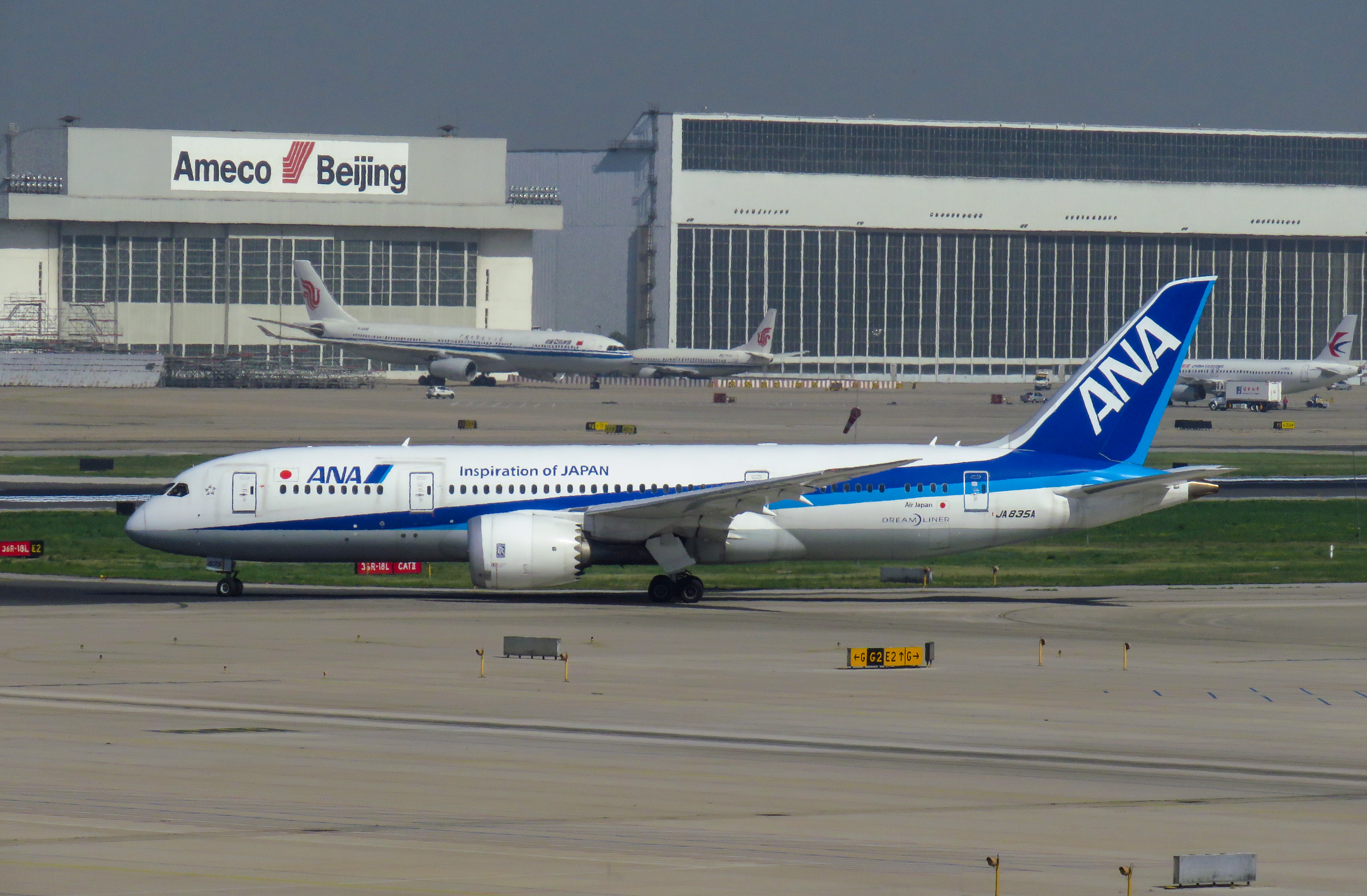 All Nippon 964 to Tokyo-Haneda.